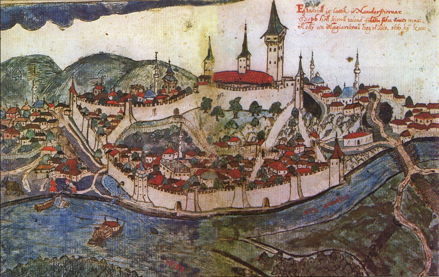 Watercolor painting in the song book of Ferenc Wathay (Nándorfehérvár)